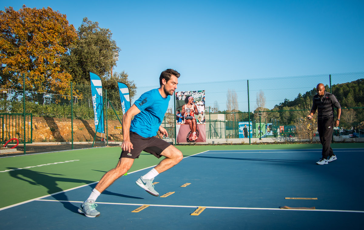 Jeremy Chardy during a fitness training at the Mouratoglou Academy